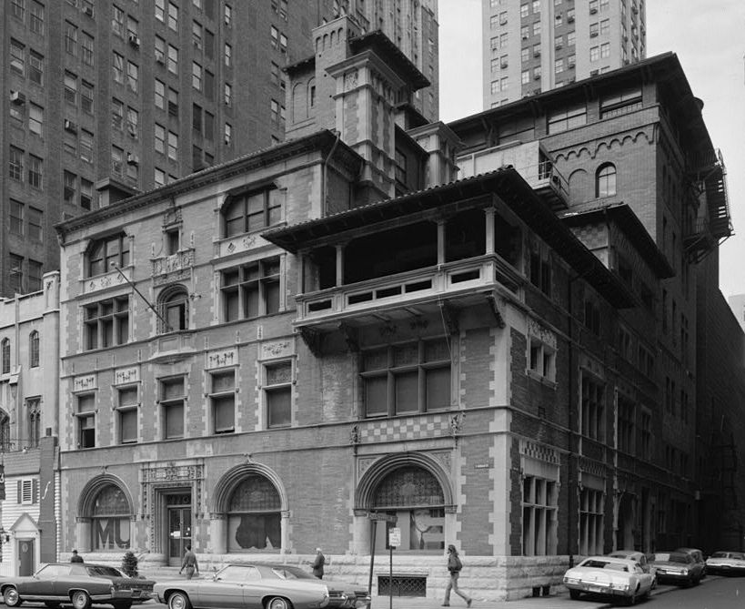 Philadelphia Art Club, 220 S. Broad St., Philadelphia, PA (1889-90, demolished 1975-76), Frank Miles Day, architect.